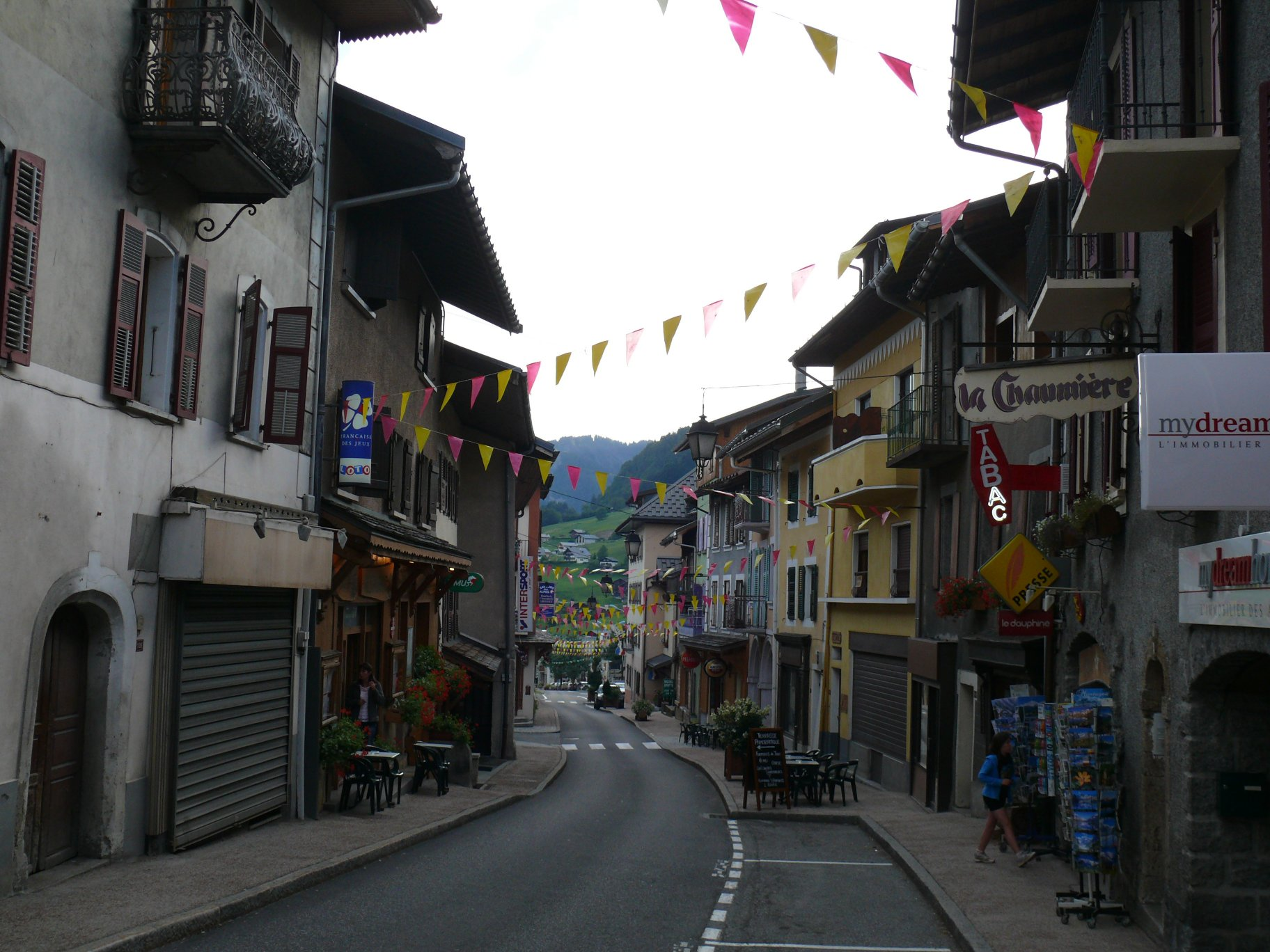 Mont-Blanc street in Flumet (Savoie, Rhône-Alpes, France).